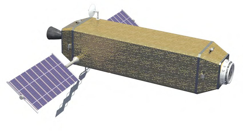 The key is to get a commercial interest that depots can be profitable and that a good business case exists. A growing interest in servicing satellites in GEO may provide some of the near term customers needed. It is a common location for a large number of satellites, many which are at or nearing the end of their useful life. Concentrating on the larger government satellites should be profitable and once a working depot has been demonstrated other applications would expect to follow. These services would be considerably different than those needed for exploration – different propellants, different locations, different applications, etc. But establishing commercial ownership and operations would be profound. A simple GEO depot could be done relatively soon using existing launch vehicles.